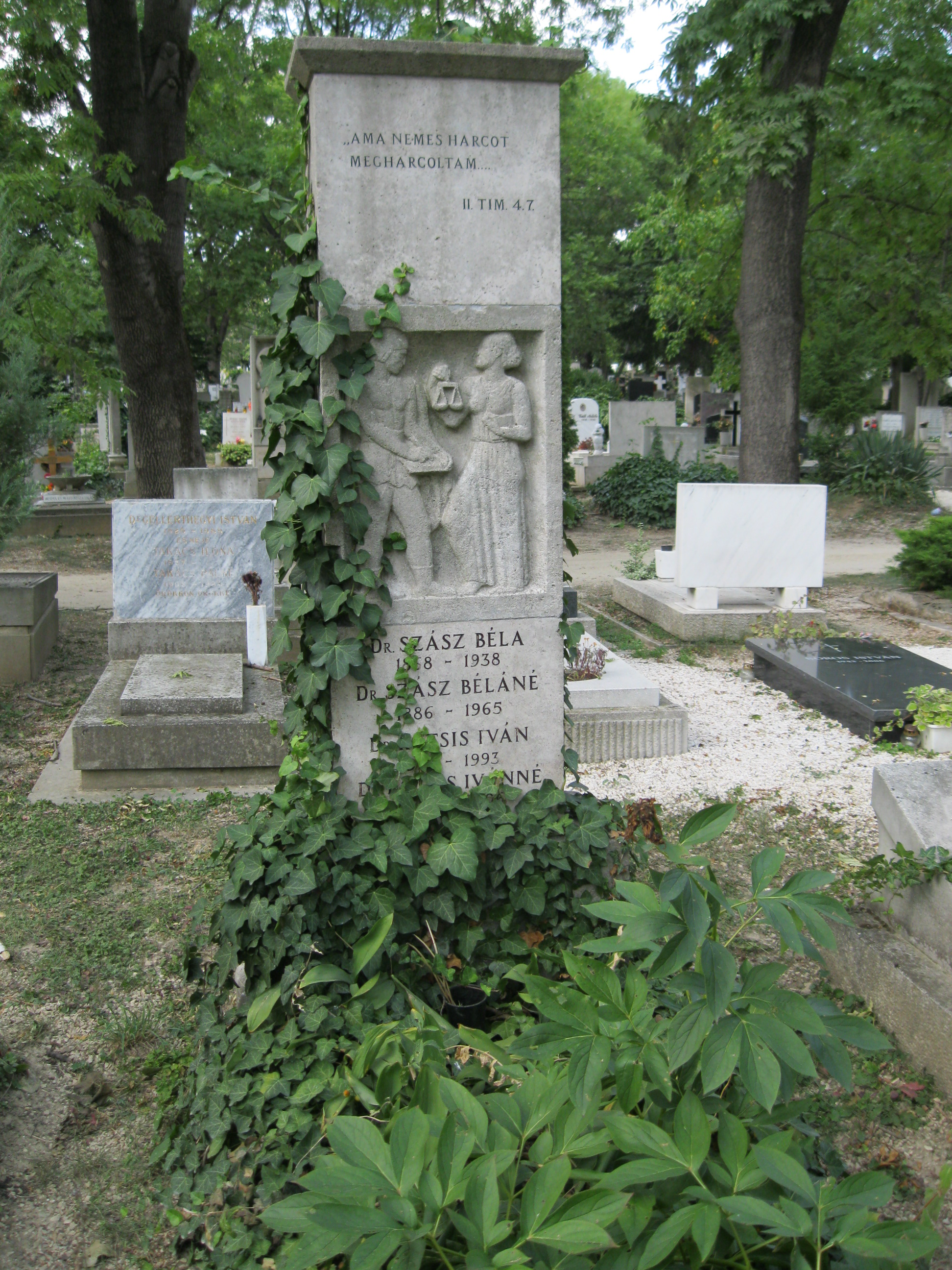 Tomb of Béla Szász (jurist) in Farkasréti Cemetery [7/6-1-93]. Creator: Fülöp Beck Ö.